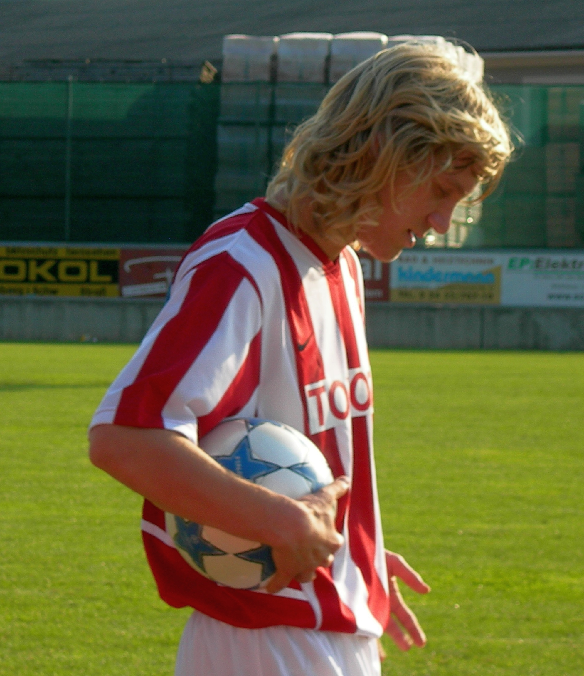 Red-Star-Belgrade-player Dušan Basta during the international pre-season friendly Red Star Belgrade (Serbia-Montenegro) vs FC Gratkorn from Austria on 7 July 2006 at the football ground in Wolfsberg im Schwarzautal (Styria / Austria)